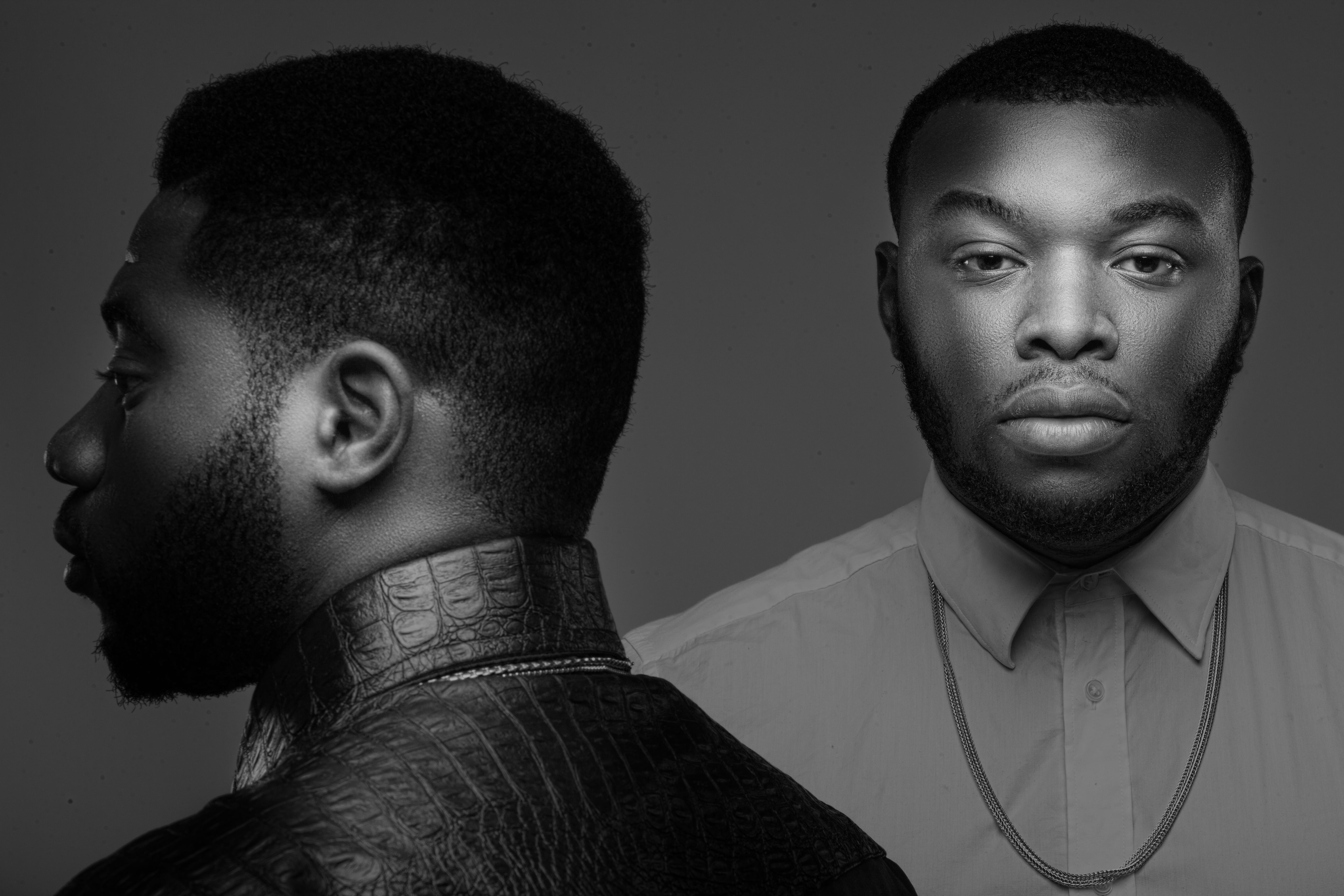 The Legendury Beatz brothers, Uzezi on the right and Okiemute on the left